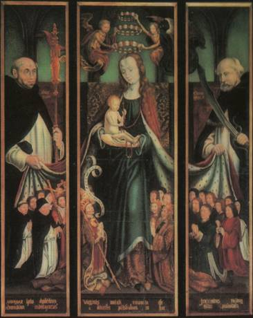 Saint André de Cologne, Maître autel, Vierge de Miséricorde